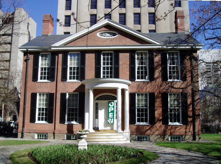 Taken by SimonP in April 2005